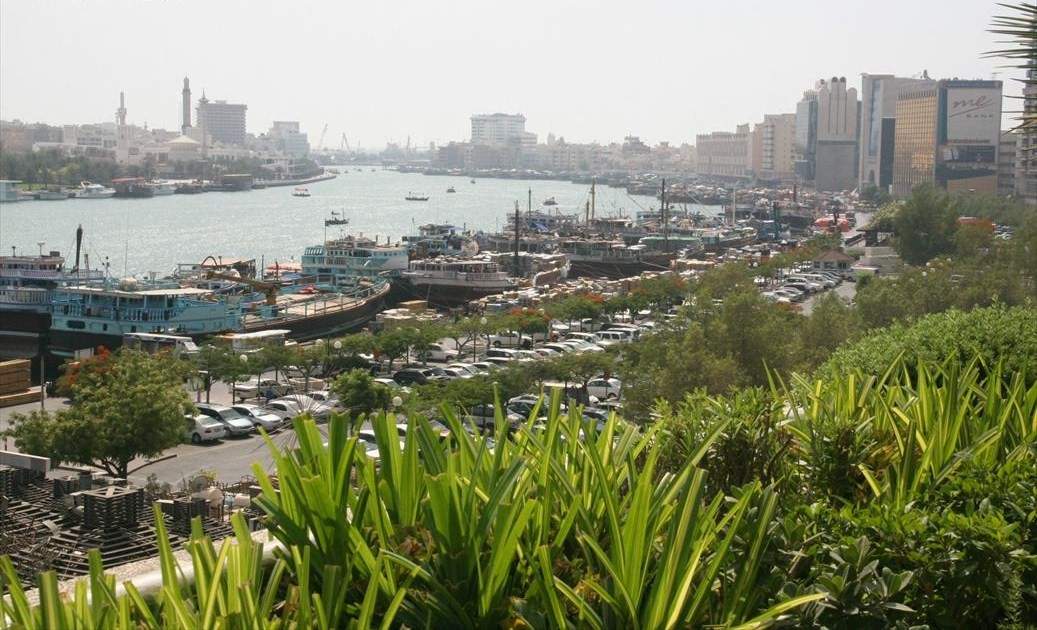 This is a photo showing Dubai Creek in Dubai, United Arab Emirates as seen from the Twin Towers Deira on 8 May 2007.